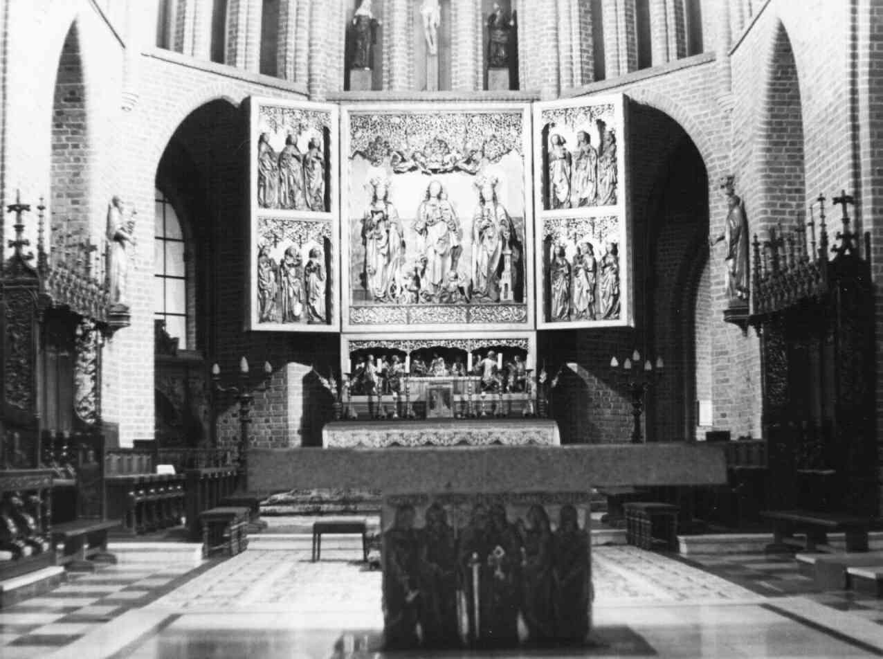 High altar in the Archcathedral Basilica of St. Peter and St. Paul, Poznań